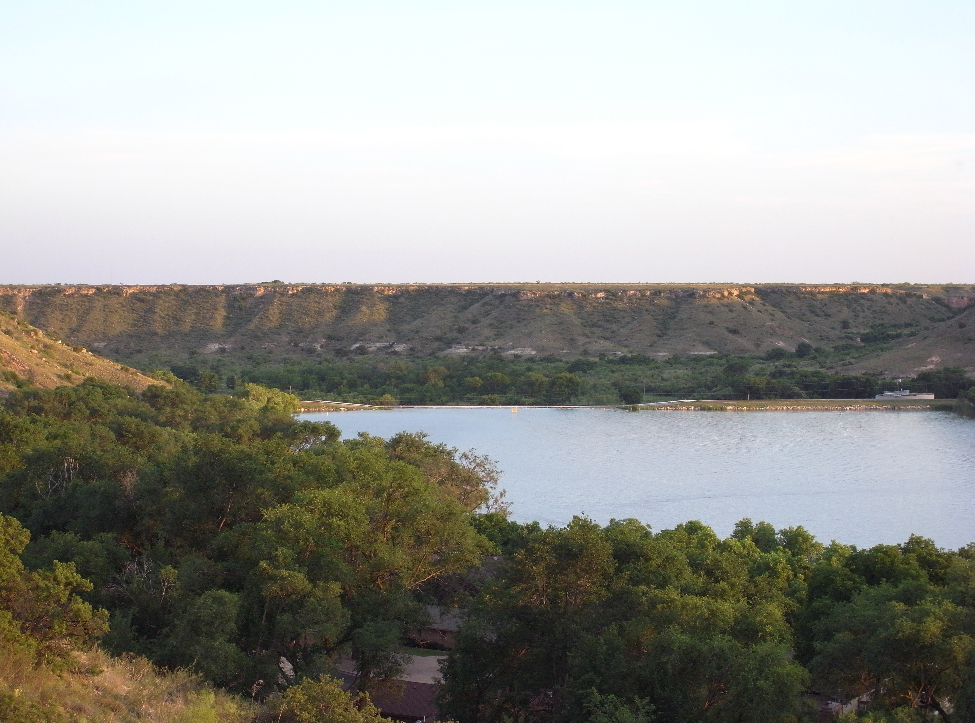 A view of Yellow House Canyon with the southern end of Ransom Canyon Lake — a reservoir on the Double Mountain Fork Brazos River, in Ransom Canyon, West Texas.